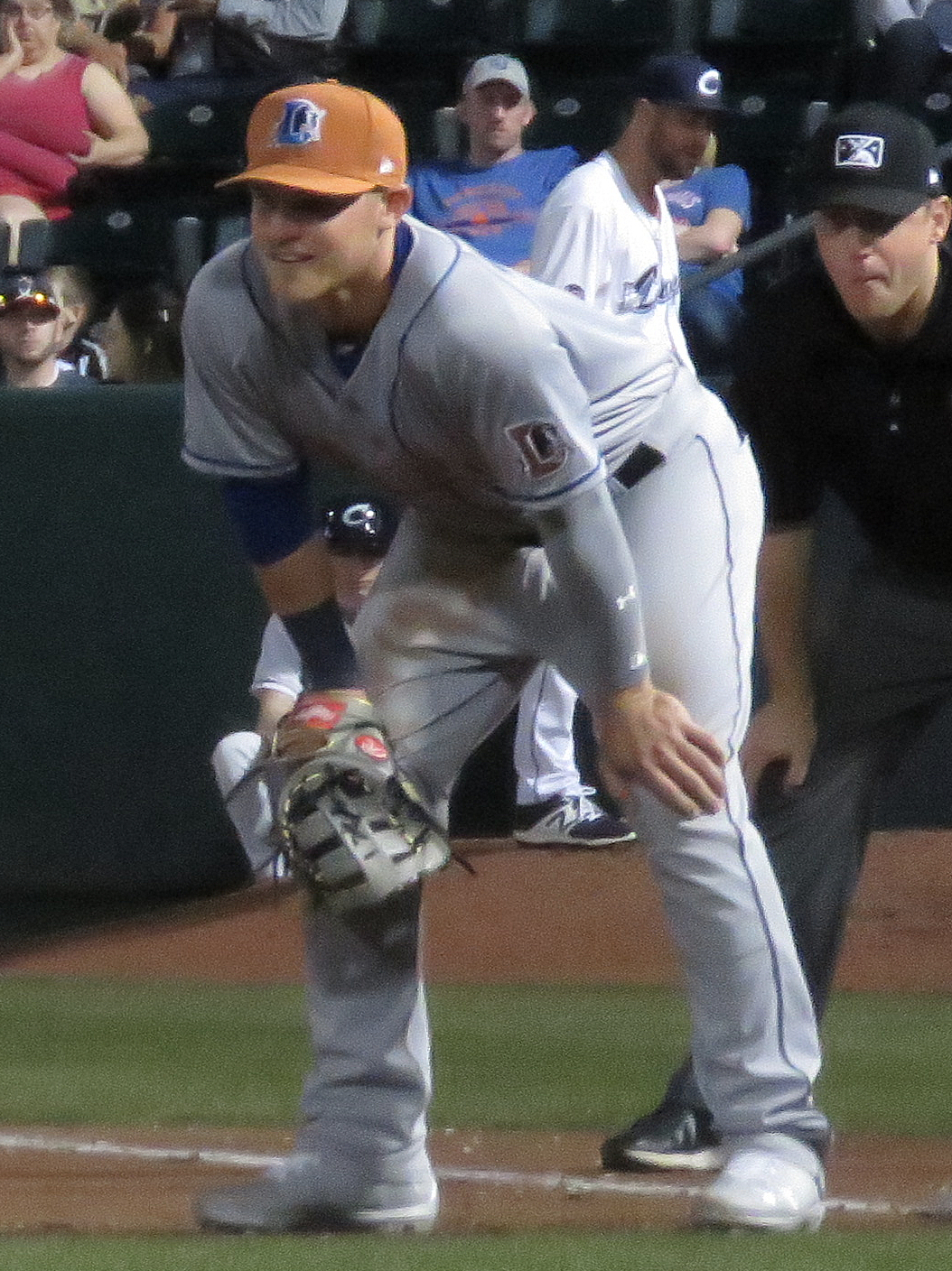 Yandy Diaz of the Columbus Clippers is held onto first base by Jake Bauers of the Durham Bulls during a 2018 game at Huntington Park in Columbus, Ohio